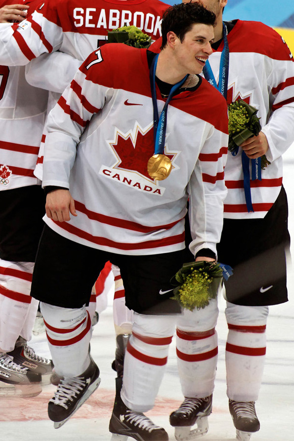 Canada forward Sidney Crosby celebrates with the gold medal after defeating the United States during the 2010 Winter Olympics This file has been extracted from another file: SidneyCrosby2010WinterOlympicsgold.jpg